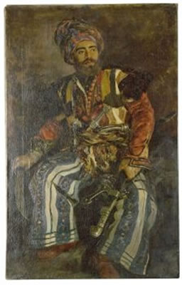 Alexander Litovchenko (1835-1890) Portrait of a Cossack